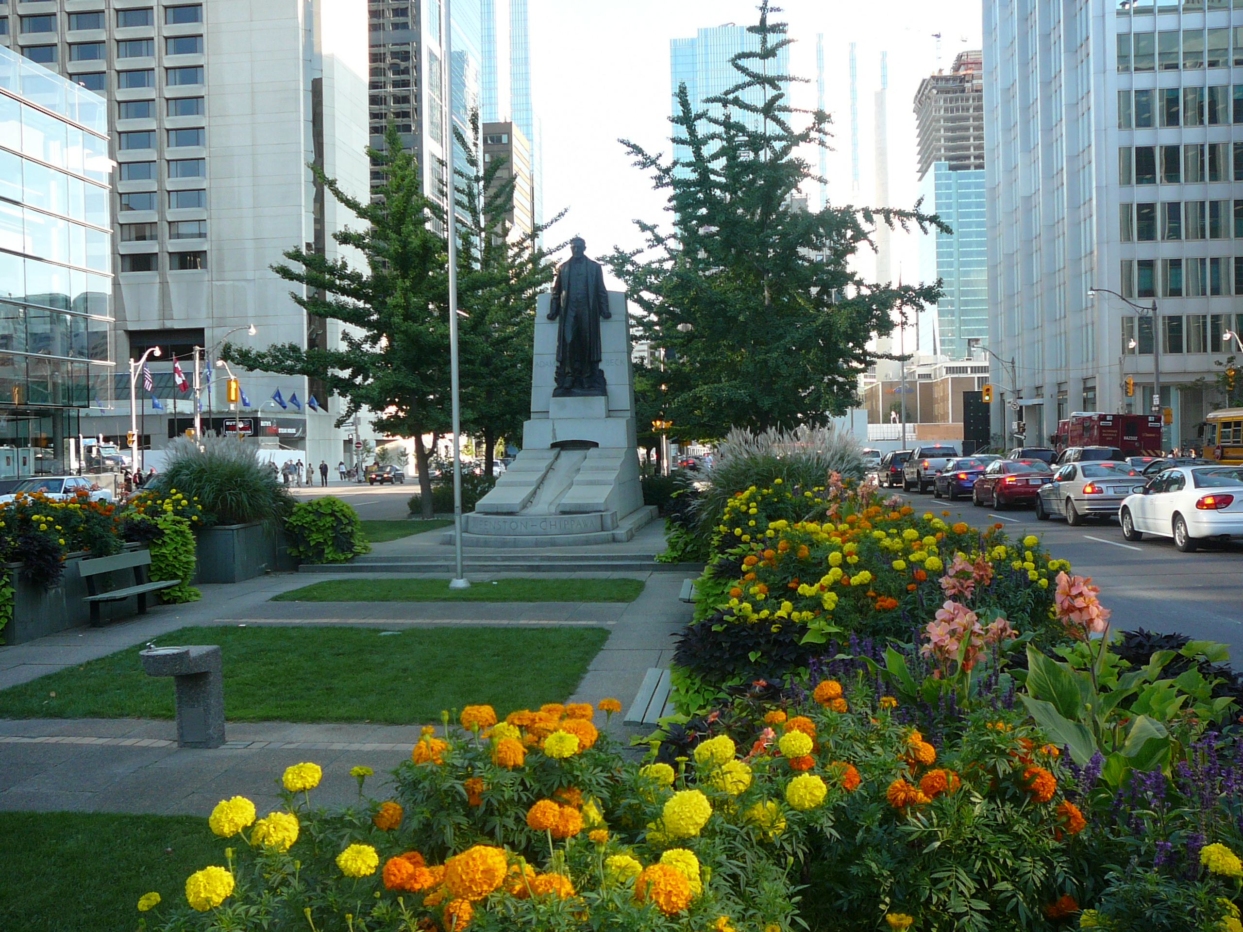 University Avenue looking south, with statue of Adam Beck in the boulevard betweeen northbound and southbound lanes. Toronto, Canada.